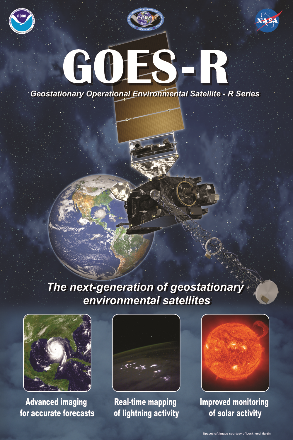 Poster image depicting satellite and benefits